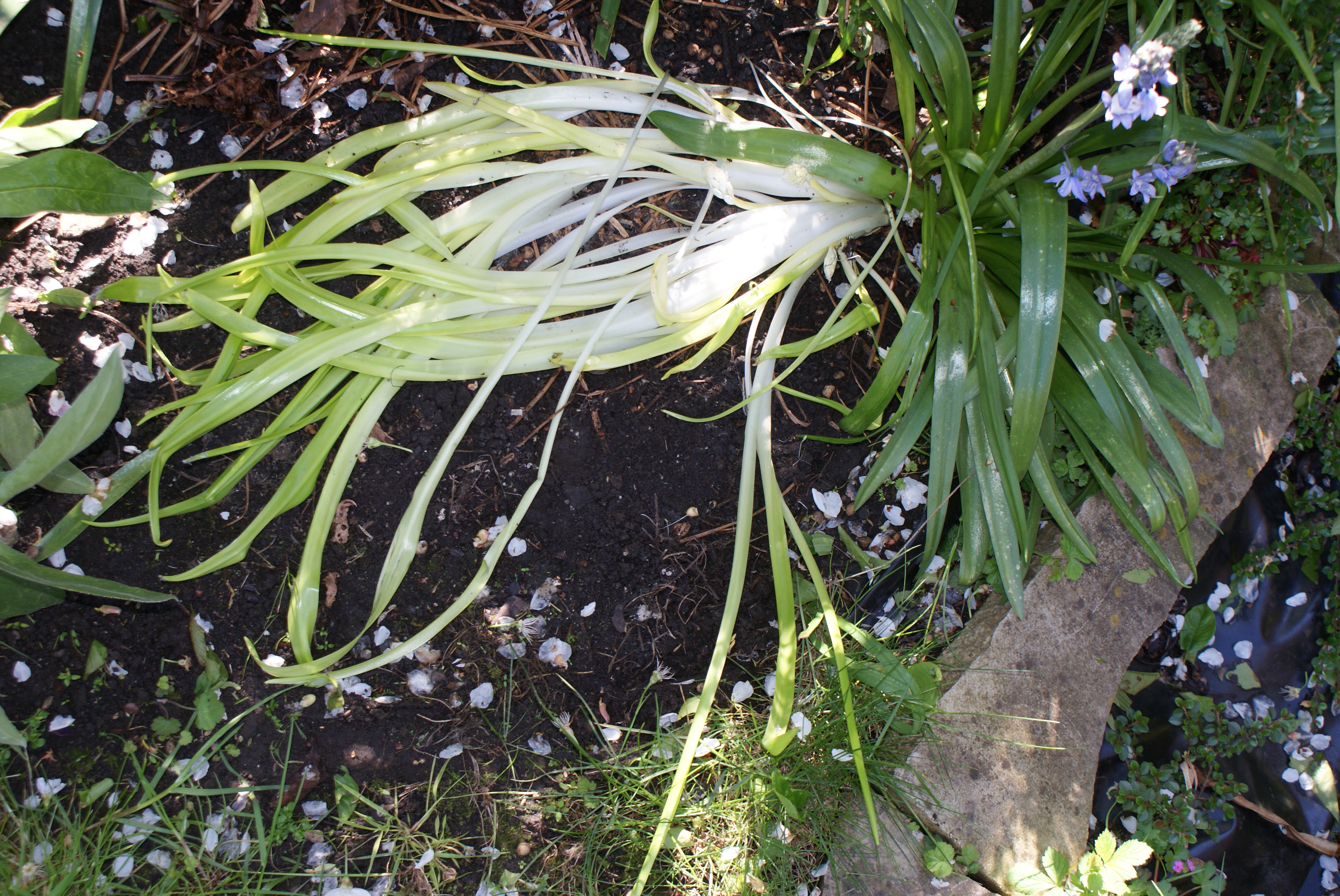 Etiolated Spanish Bluebells, Hyacinthoides hispanica. They grew under an opaque cover; some that were not covered are visible on the right. The longest etiolated leaves are about 50 cm (19 inches) long: compare with the green leaves on the right, which are thicker, broader, and about half as long. Three nearly colourless etiolated flower shoots are visible: compare these to the opened flowers on the right.